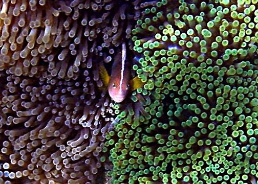 skunk anemonefish (Amphiprion akallopisos)